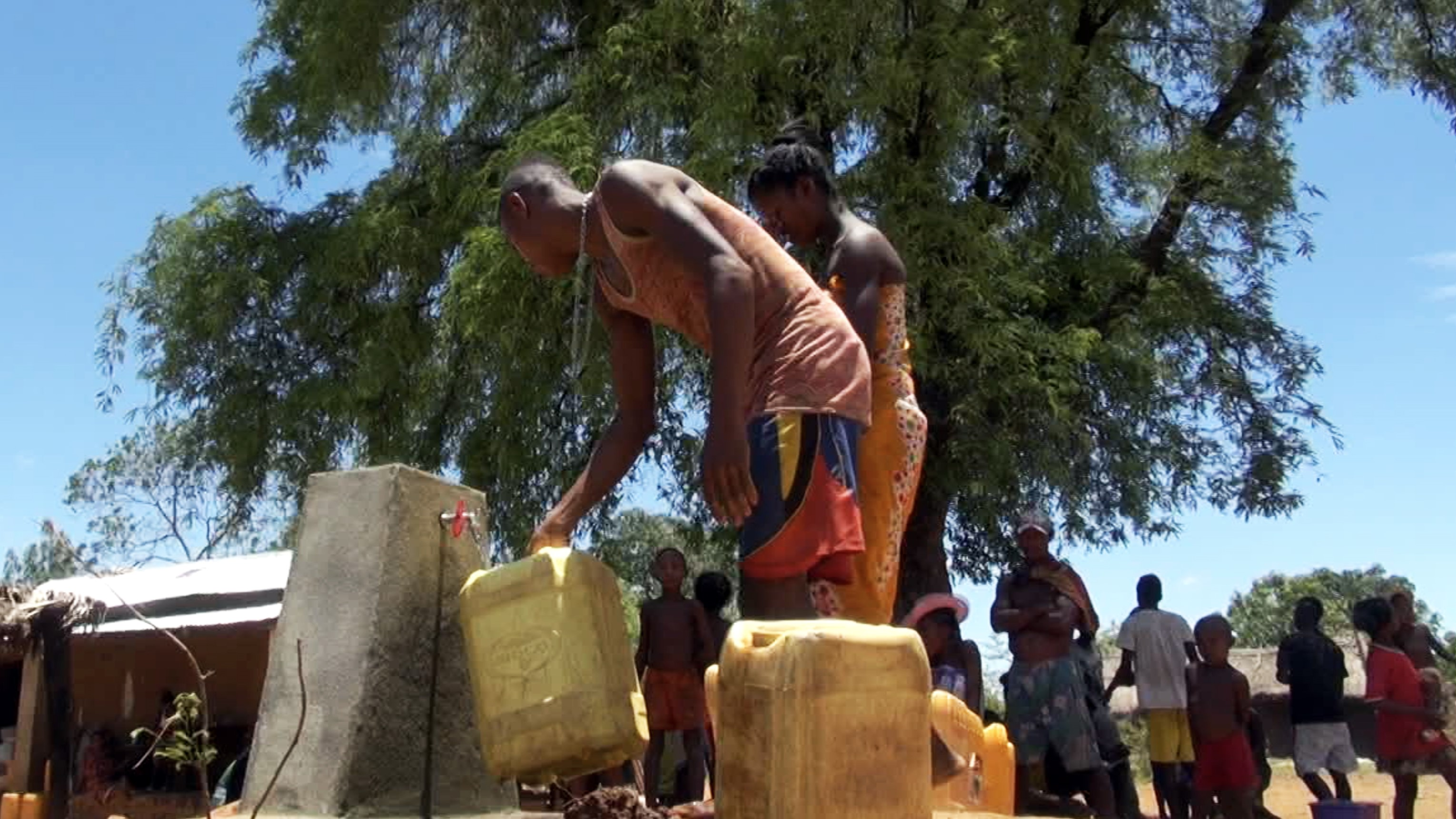 water project of Objectif 2030 in Ambesisika